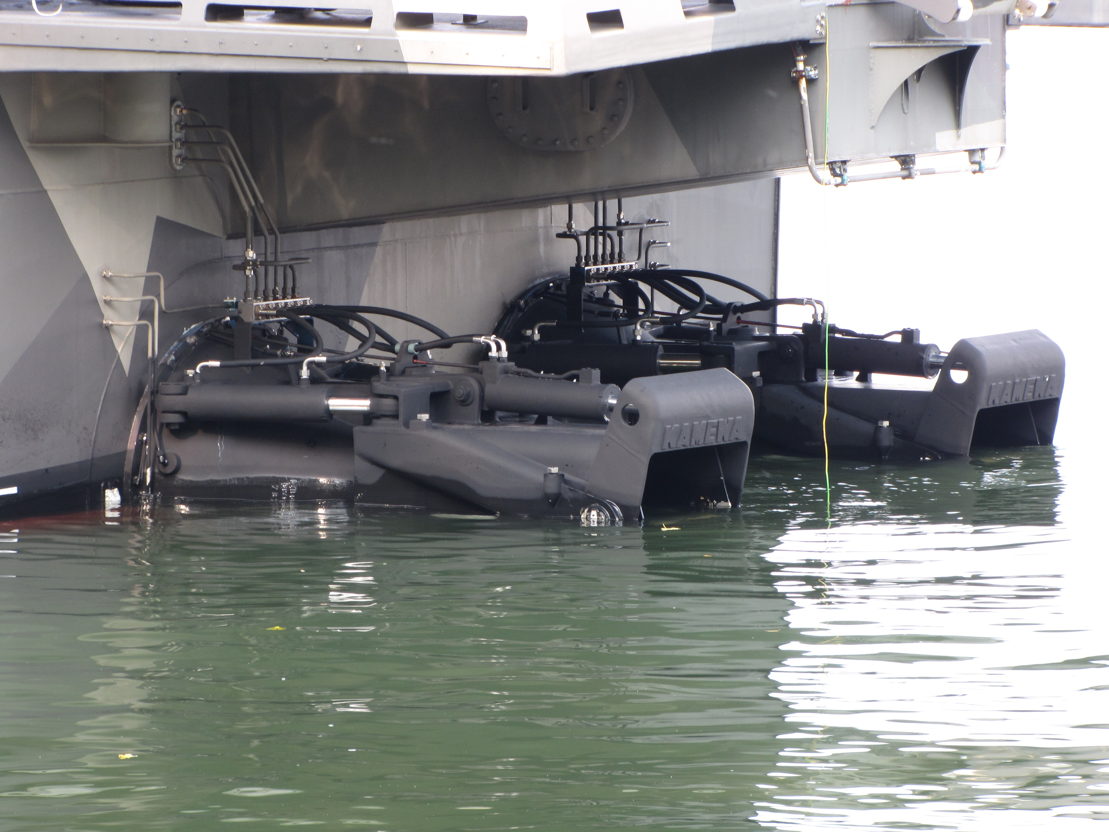 Rolls Royce Kamewa 90SII waterjets of the Finnish missile boat Pori.